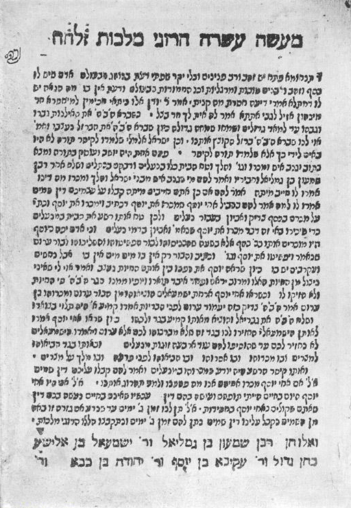 Page from Midrash Eleh Ezkerah, Constantinople, 1620. See Jewish Encyclopedia s.v. Smaller Midrashim.